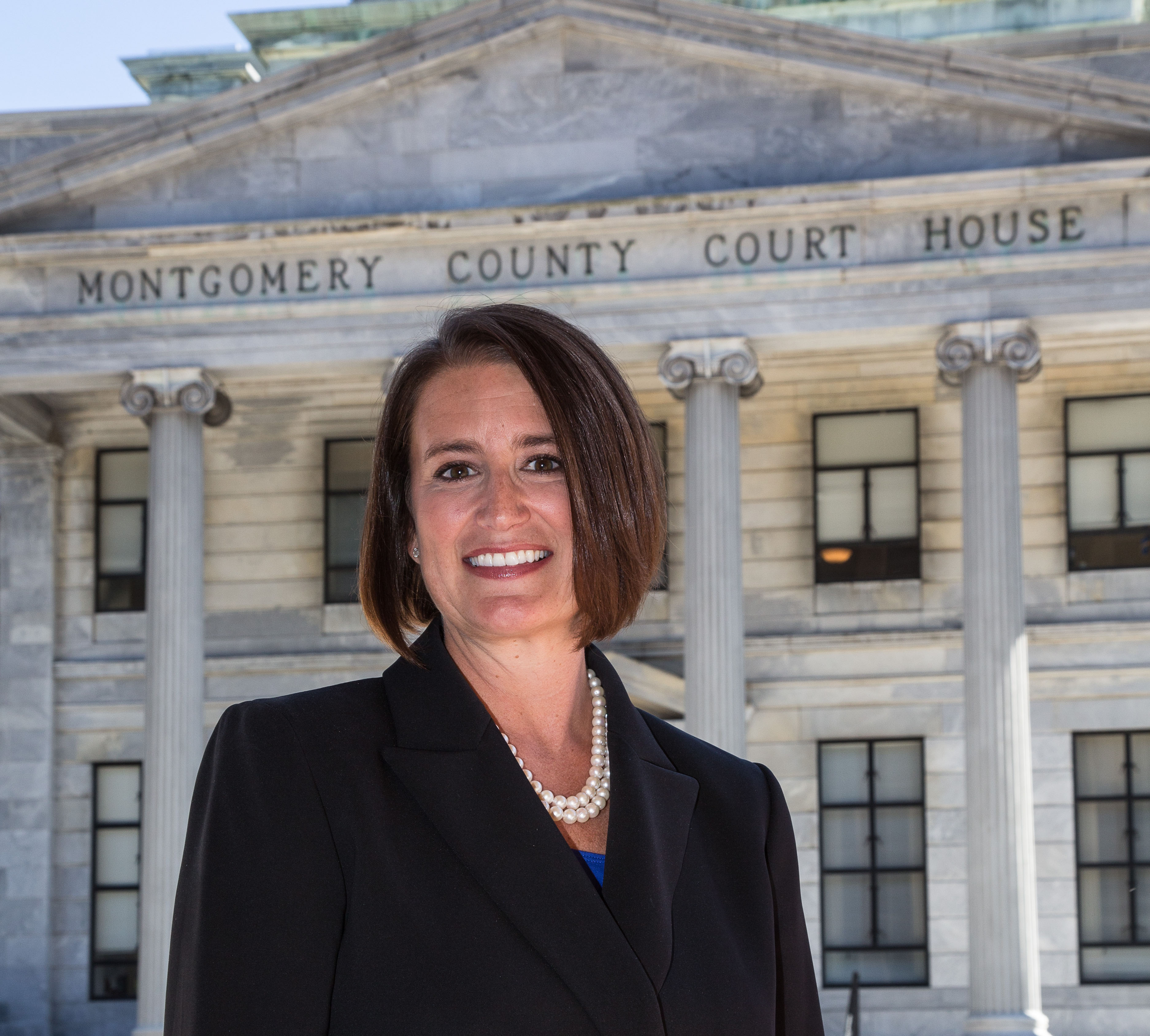 Photo of Montgomery County District Attorney Risa Vetri Ferman in front of the Montgomery County Courthouse in Norristown, Pennsylvania.